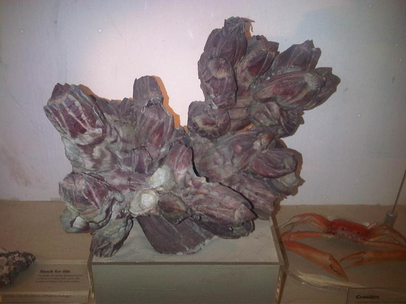 Austromegabalanus psittacus giant barnacles and unidentified Decapoda sp. at the Natural History Museum in London, England.